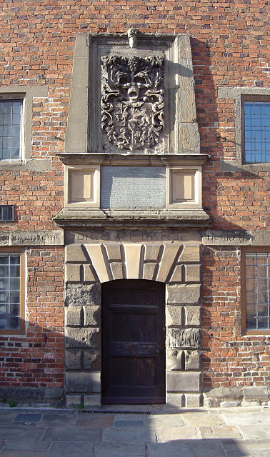 Old School House Inscription (4) The elaborate entrance to the Old School House with the coat of arms of Sir Thomas Parkyns. For details of the Inscriptions